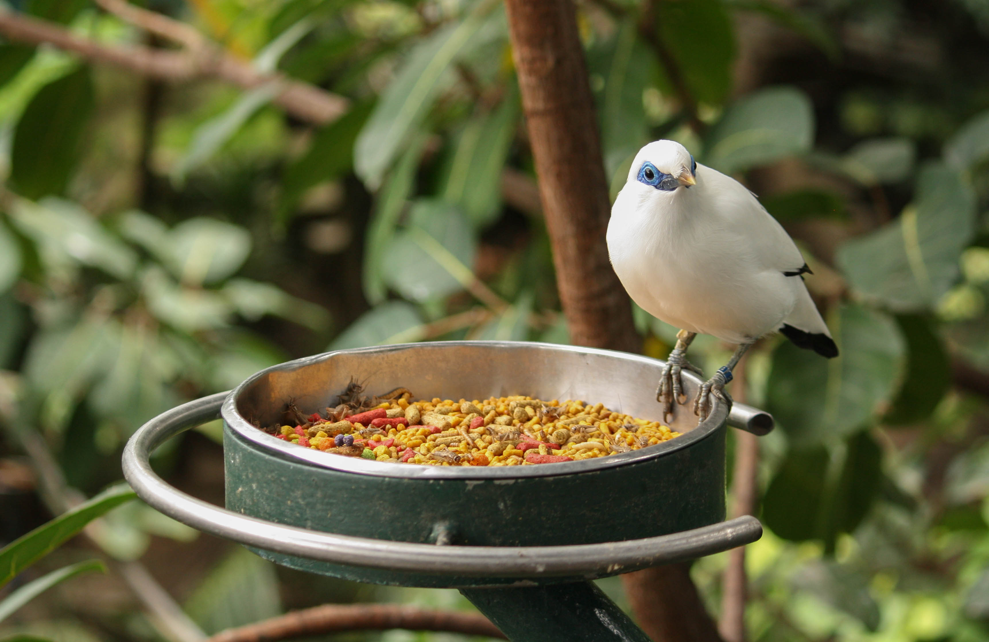 Bali Myna (Leucopsar rothschildi), in San Diego Zoo, California